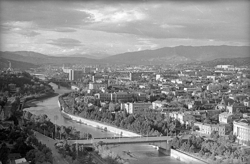 View of Tbilisi, Georgian SSR